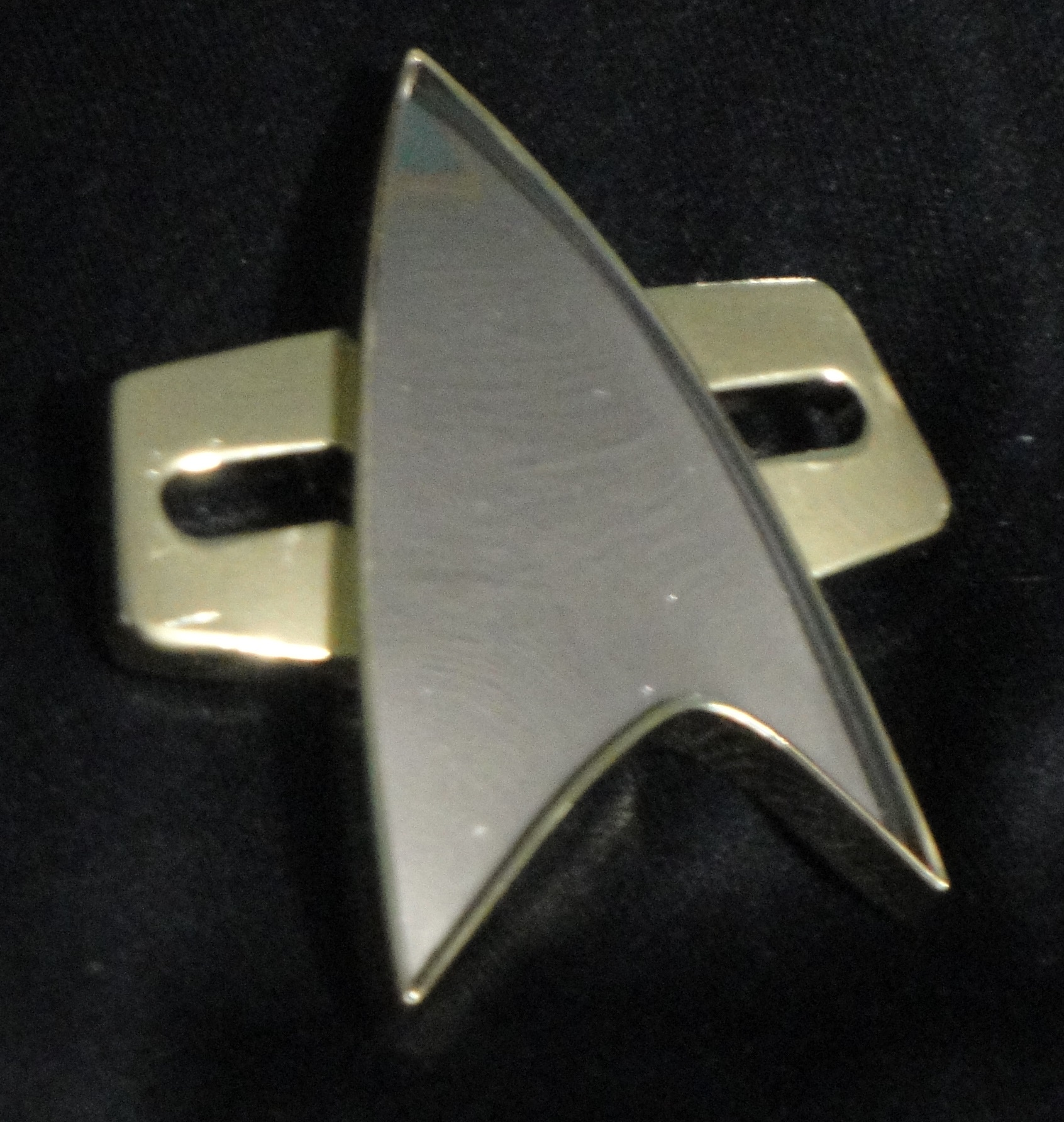 Comm Badge from Star Trek: Generations and used in Deep Space Nine and Voyager thereafter. This is the all-metal version from Qmx that was made from molds taken from an actual screen-used prop. The original prop was resin with matte color paint to prevent light and camera reflections during shooting. This one is metal that is plated and has a mirror finish.